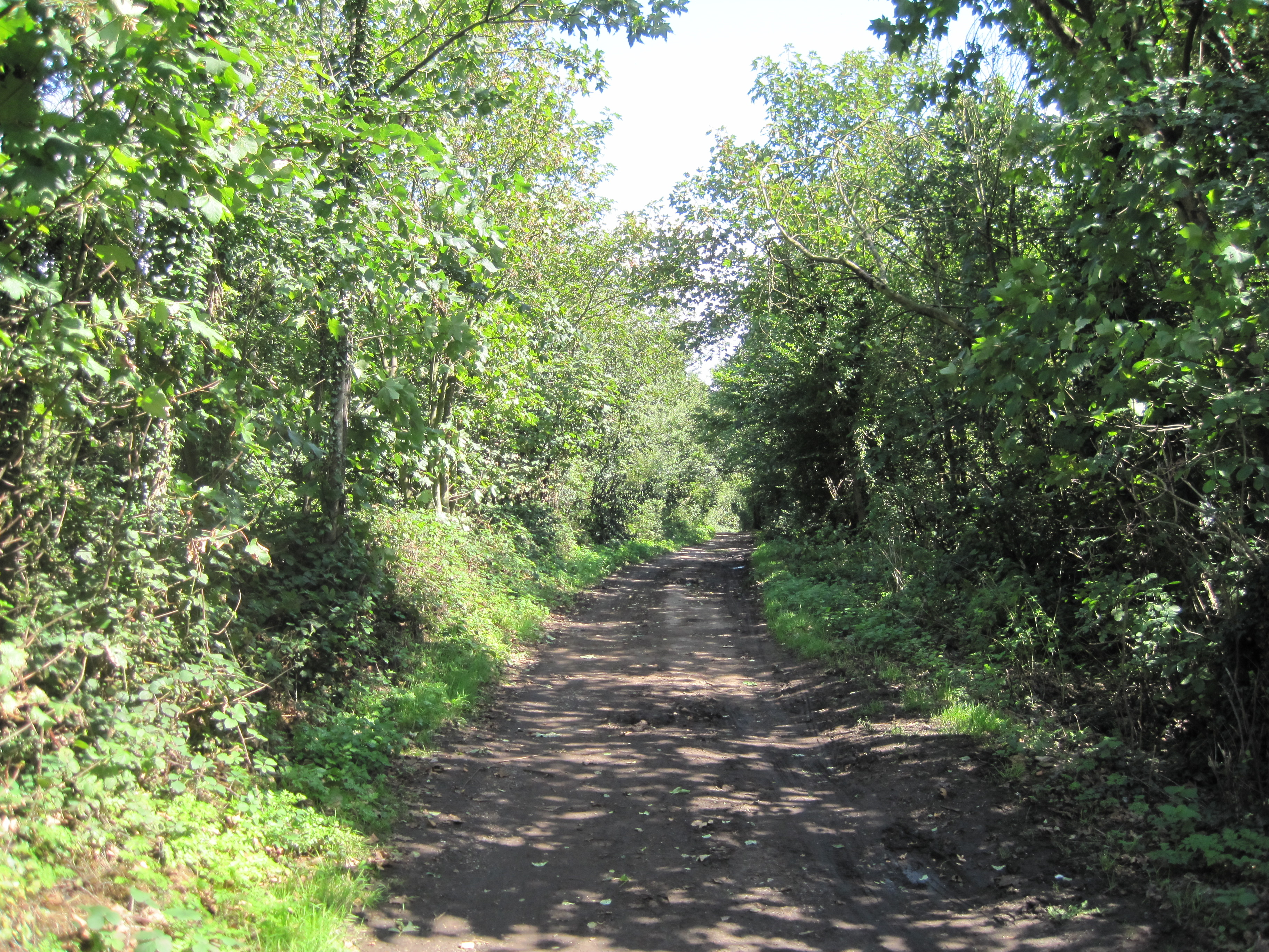 Burtonhole Lane, Burtonhole Lane and Pasture Local Nature Reserve, Mill Hill, Barnet, London